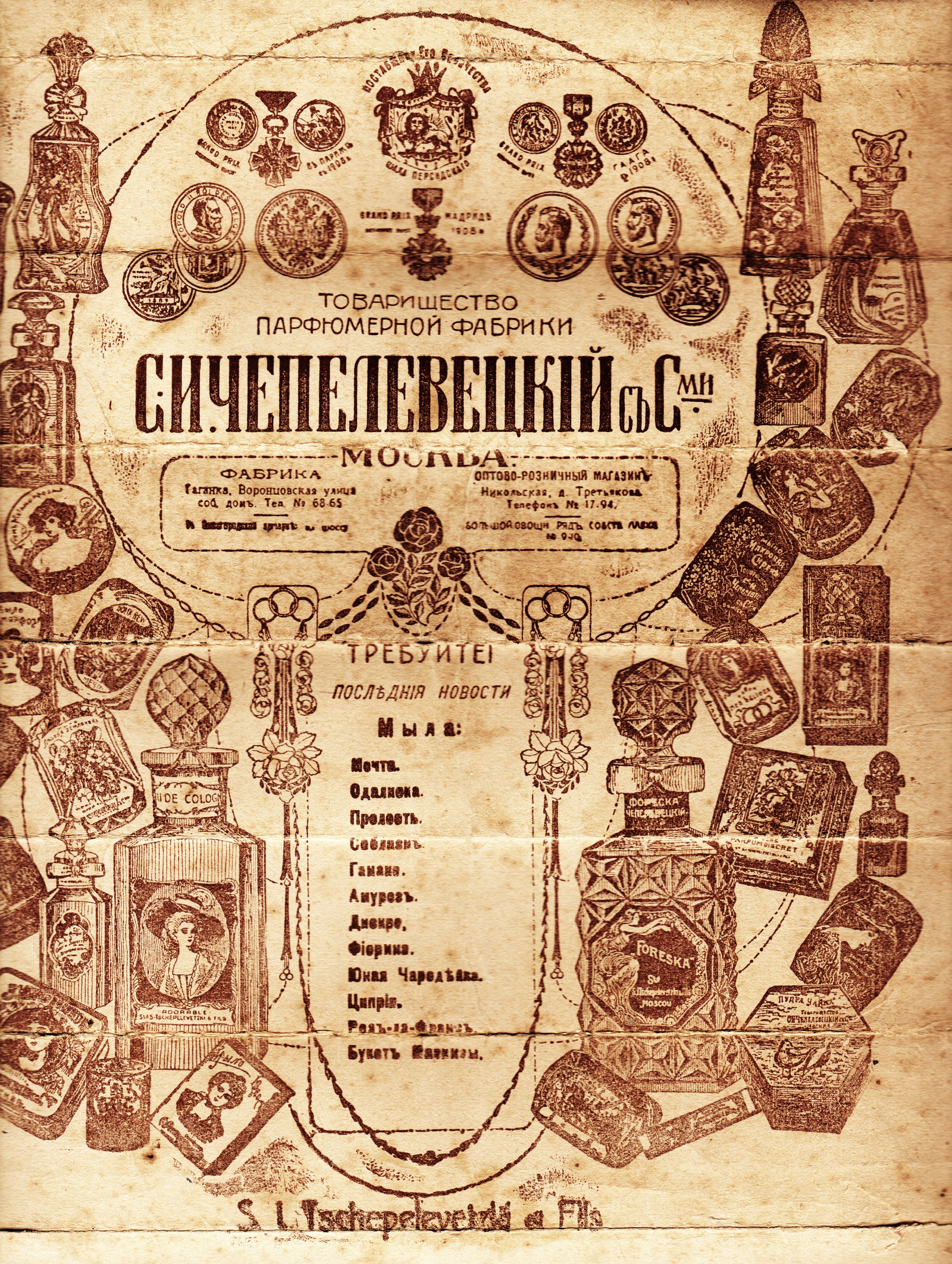 Perfume Developer Chepelevetsky & Sons Advertising Leaflet